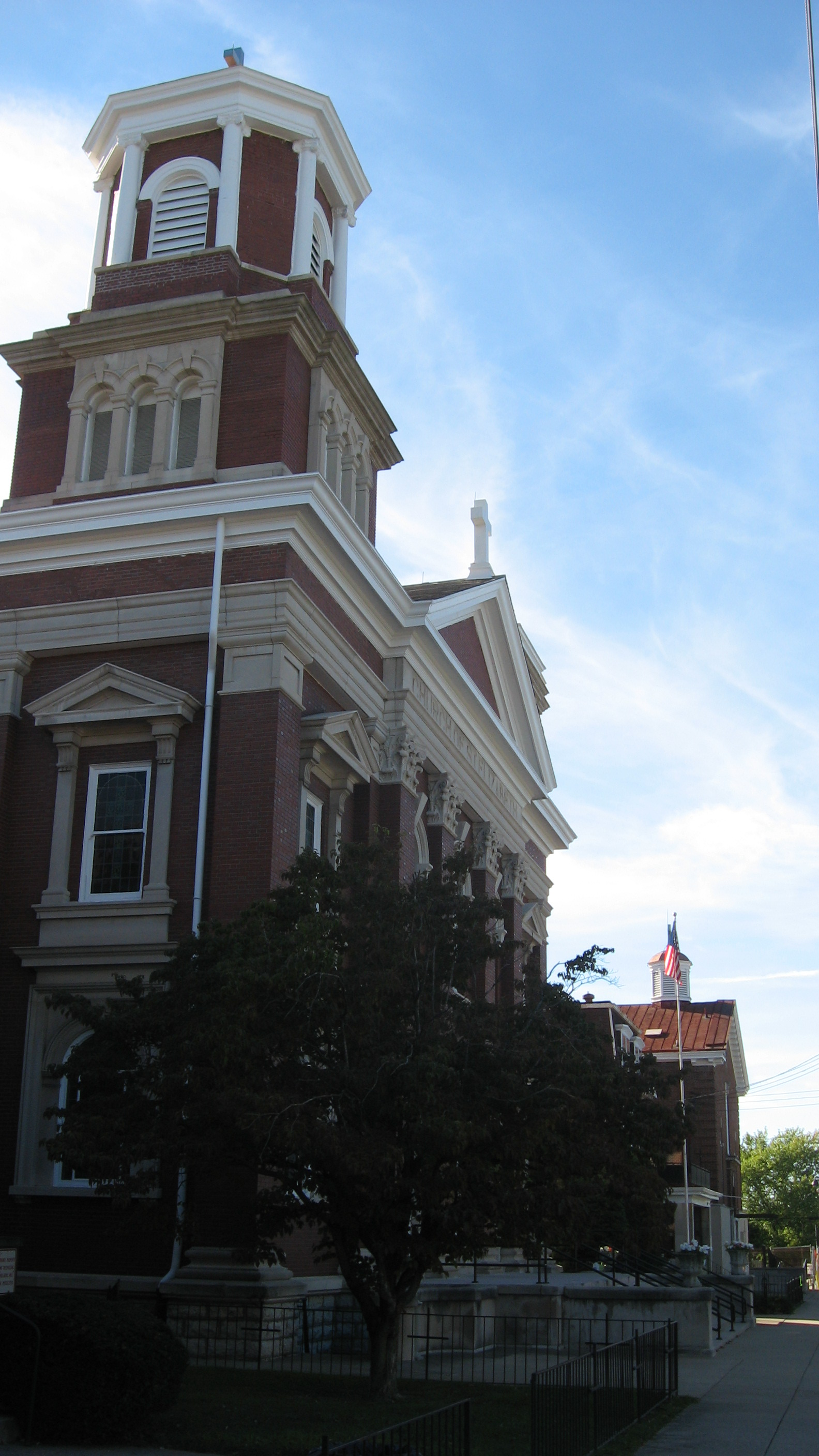 Front of St. Elizabeth's Catholic Church, located at 1024-1028 E. Burnett Street in Louisville, Kentucky, United States. Built in 1915, it is listed on the National Register of Historic Places.